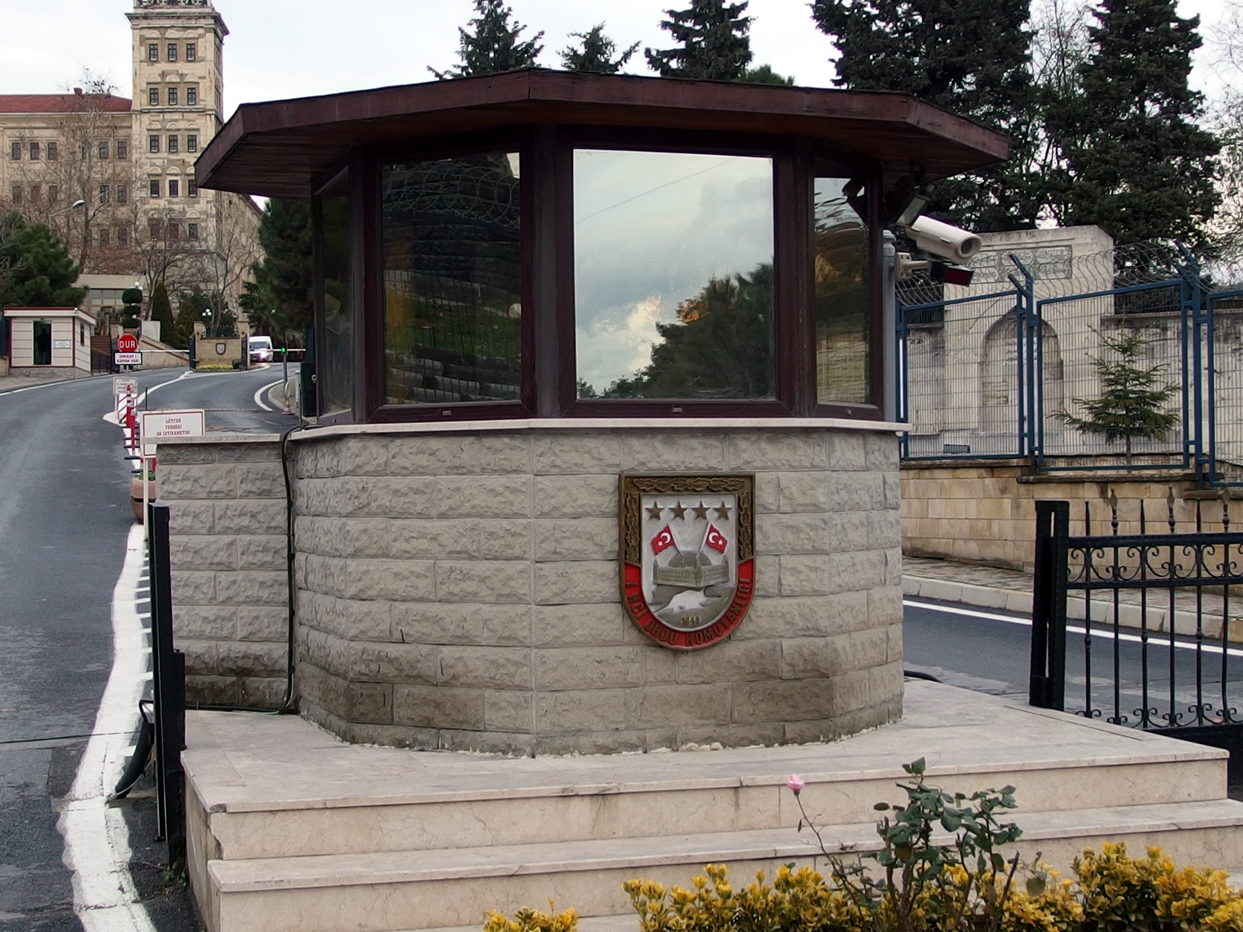 2013-12-07 in Istanbul.